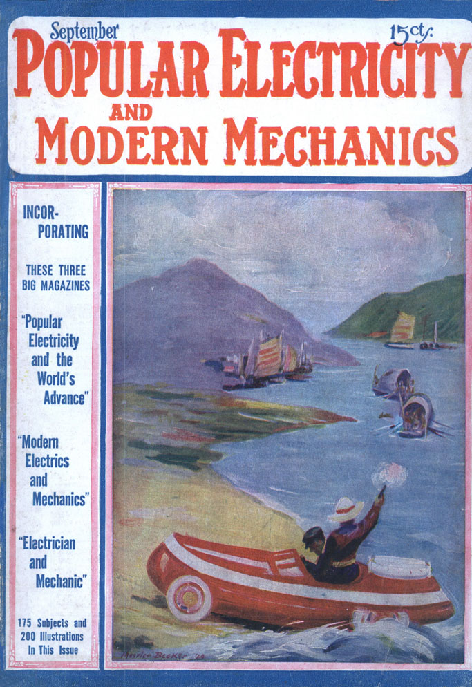 Popular Electricity and Modern Mechanics September 1914 Modern Publishing Company of New York Cover art by Maurice Becker The Hidromobile - a combination of automobile and motorboat. Page 267. After a series of mergers and title changes the magazine became Popular Science Monthly in October 1915 and is still published today.